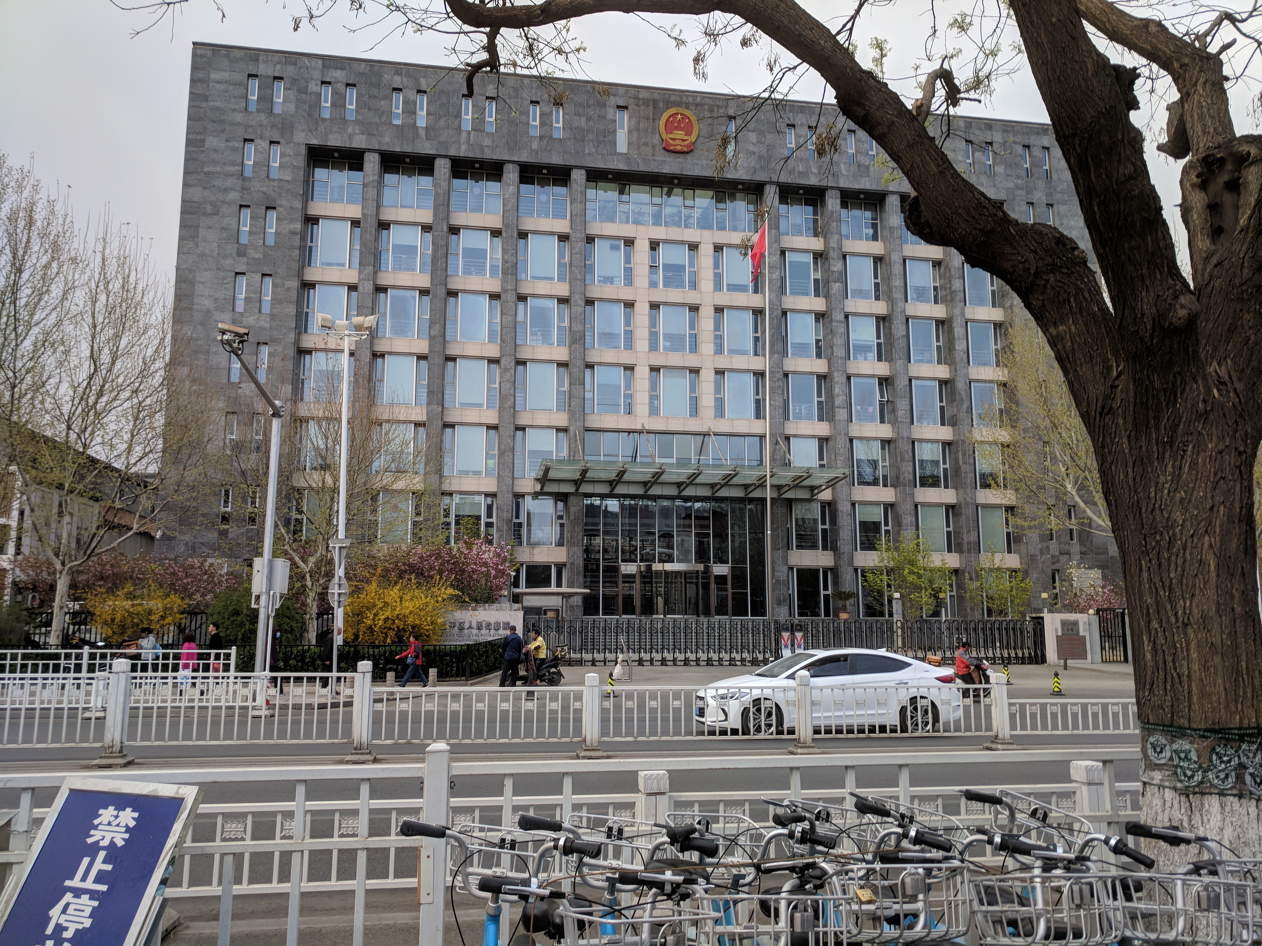 Changping District People's Procuratorate